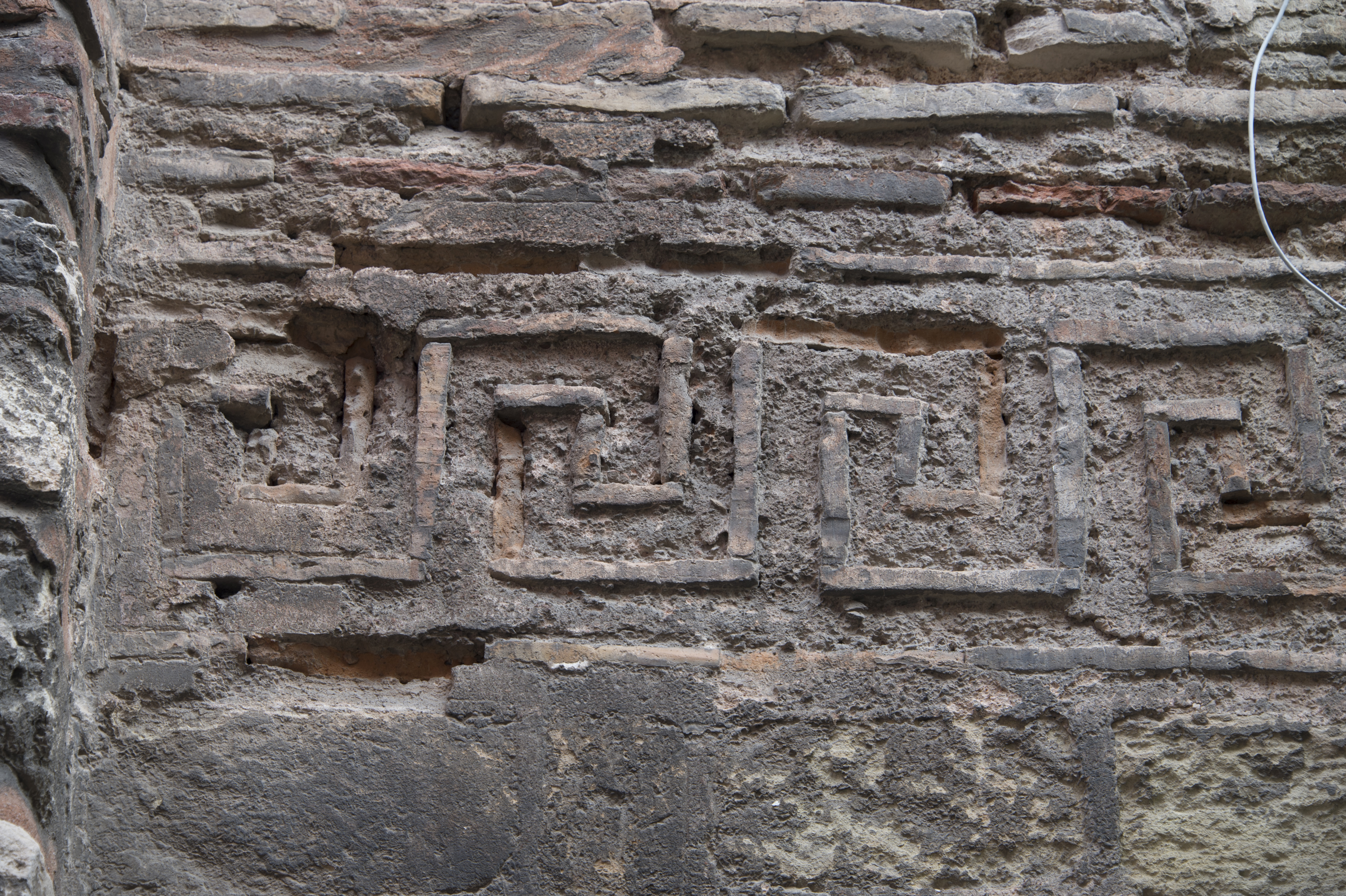 The Eski Imaret Mosque, which is the former Church of St. Saviour Pantepoptes, Christ the all-seeing. It was founded in 1085-90 by the Empress Anna Delassena, mother of Emperor Alexius Comnenus, founder of the Comneni dynasty, which was to reign Byzantium in the 11-12th centuries. Anna ruled as Co-Emperor with her son for nearly 20 years and had a great influence. In 1100 she retired to the convent of the Pantepoptes, where she died in 1105 and was buried in the church she founded. I quote from the Strolling through Istanbul guide, which continues describing the “sad state of dilapidation” of the church, now mosque. Or rather: it mentions this is now a Koran School. And that is why this gallery is curious: when I visited with Byzantine specialist Raffaele D’Amato we were first forbidden to take pictures, because the Koran School was running. The central space was filled with groups of children who were memorizing the Koran, and it was forbidden to take pictures. After some negotiating we were allowed to take pictures of the building elements, and for Raffaele this was the main point, because much of the interior had been changed in Turkish times, but things like doorframes and decorations were still obviously Byzantine.